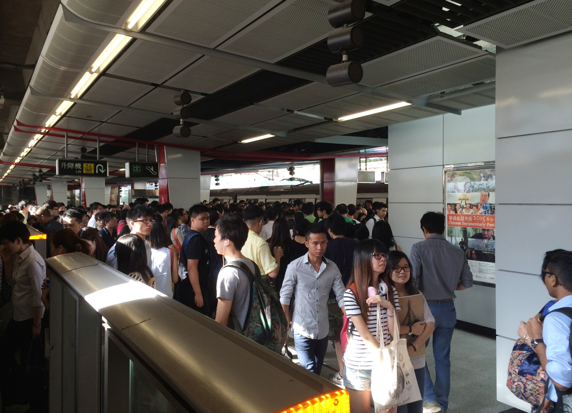 Kowloon Bay Station Overcrowded